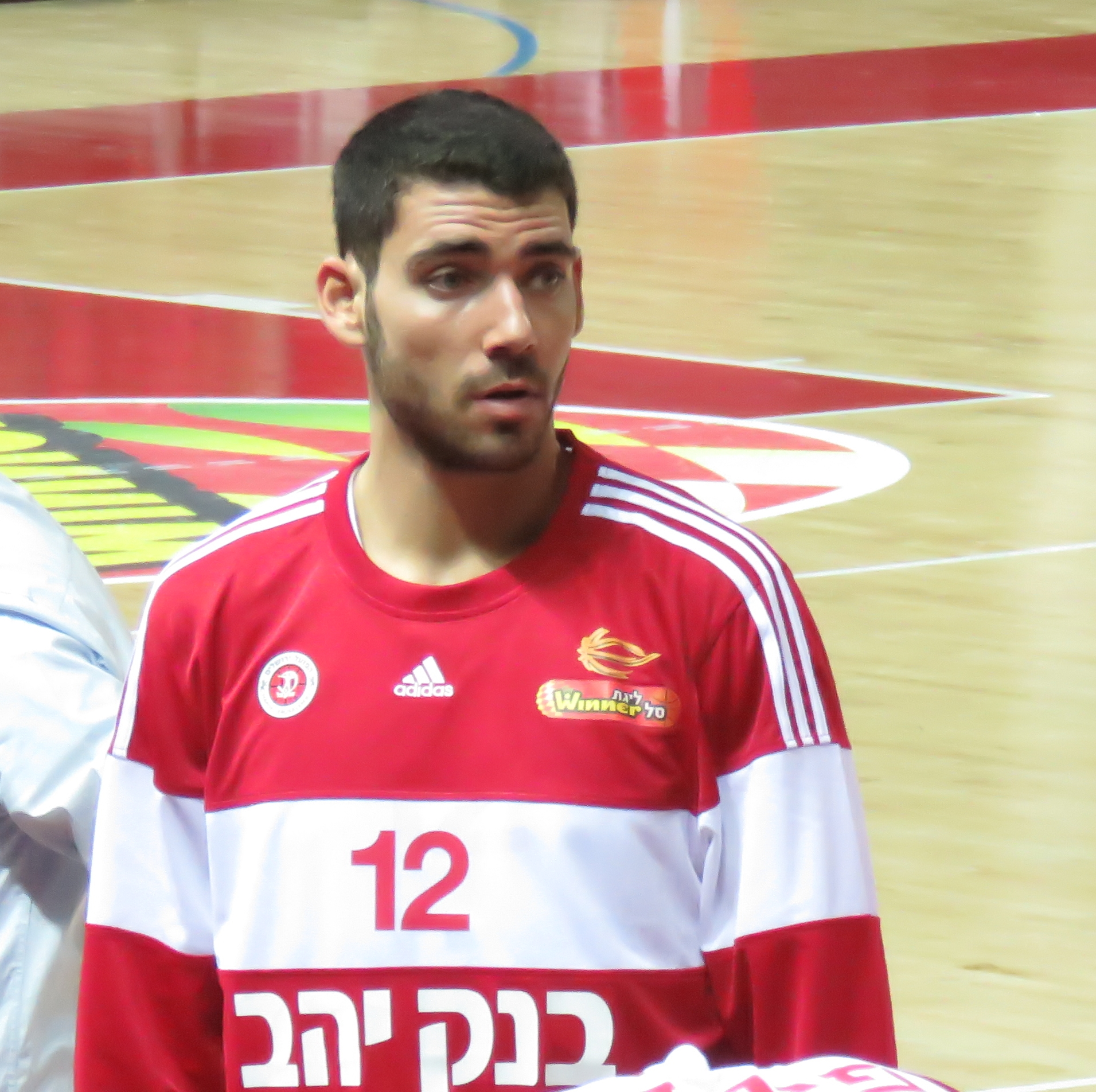 Hapoel Tel Aviv vs. Hapoel Jerusalem, 25 September, 2015